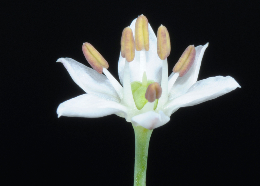 Close-up of a garlic chives flower